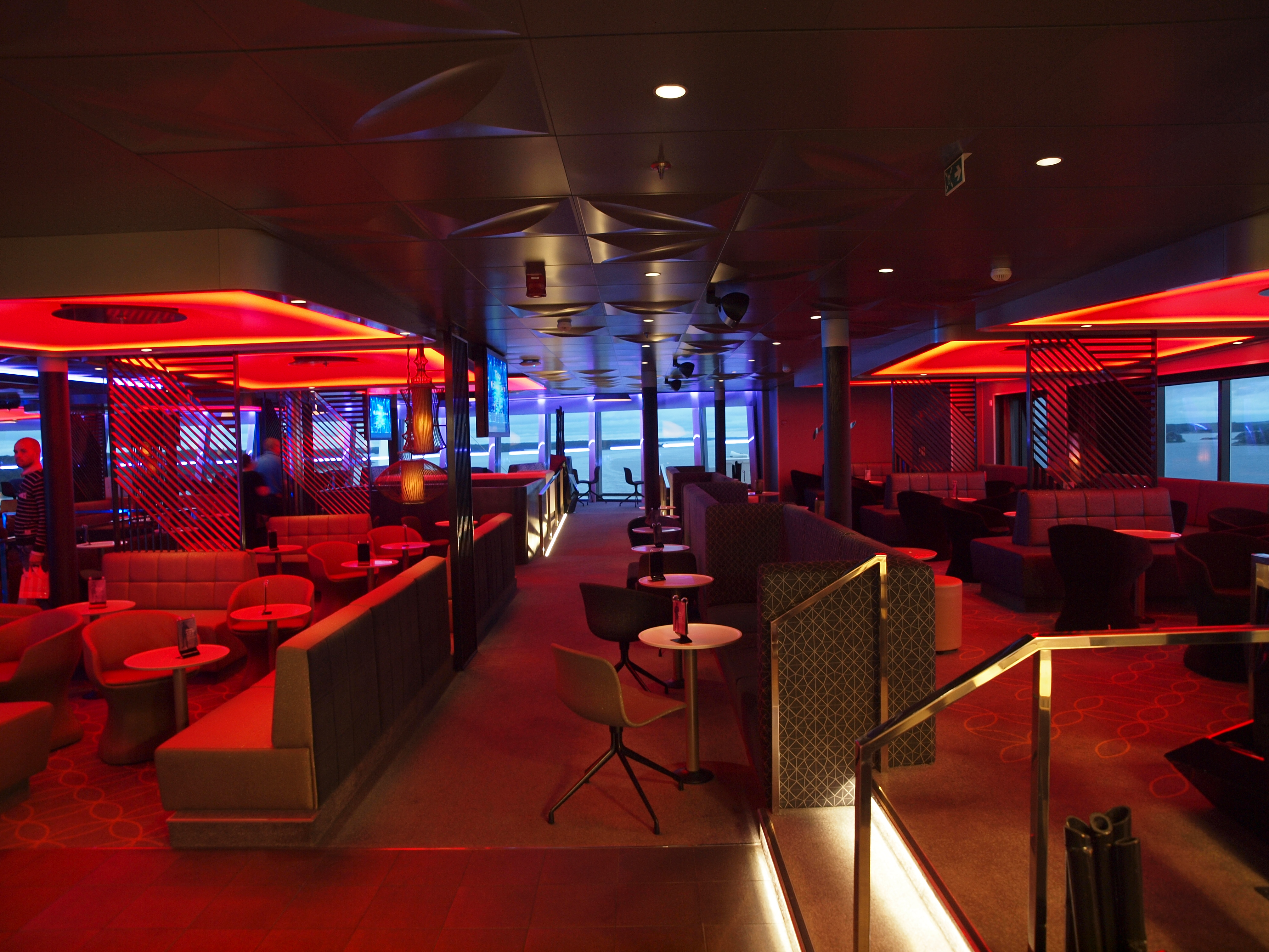 Interior of the night club Club Vogue at Viking Grace, on a late June evening.